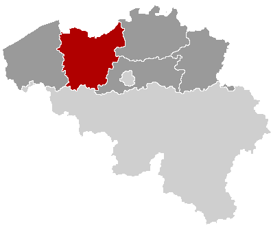 Province of East Flanders